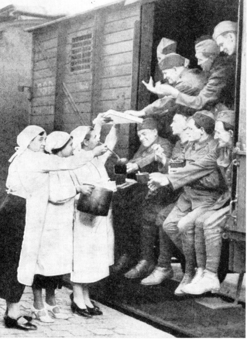 Mobilization of the Czechoslovak army, in September 1938